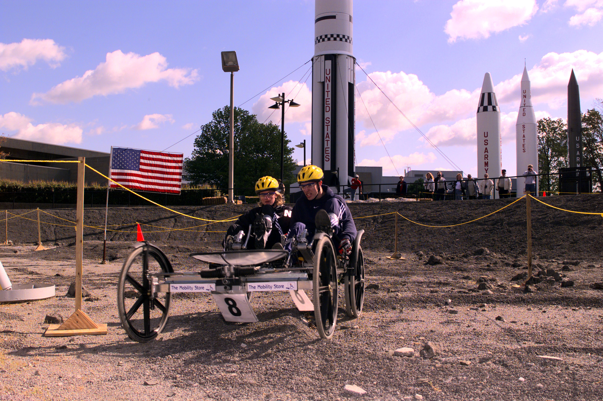 This team of Graff Career Center students from Springfield, Mo., was the winner in the high school division of the 6th annual Great Moonbuggy Race, held today in Huntsville, Ala. Here, they navigate the 360° turn around the permanent crater feature at the U.S. Space & Rocket Center, with the rocket park behind. The first-place high school team will be rewarded with a trip to Space Camp at the U.S. Space & Rocket Center in Huntsville. Teams from five high schools and 14 colleges from across the country competed in the day-long event, racing their designs of a "moonbuggy" over a simulated lunar course.